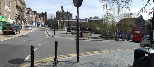 Crieff town centre